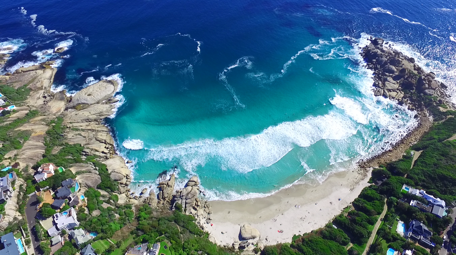 While following two speedflyers down Little Lions Head